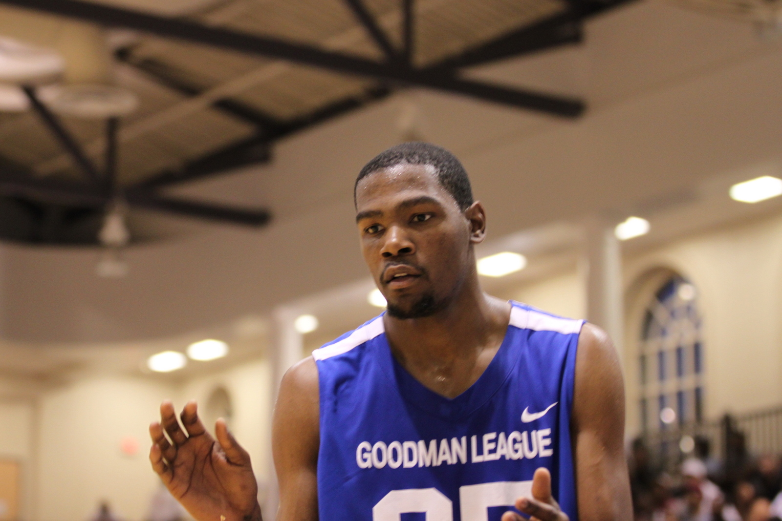 Kevin Durant at the "Capital Punishment" game between the all-star teams of the Drew League and the Goodman League